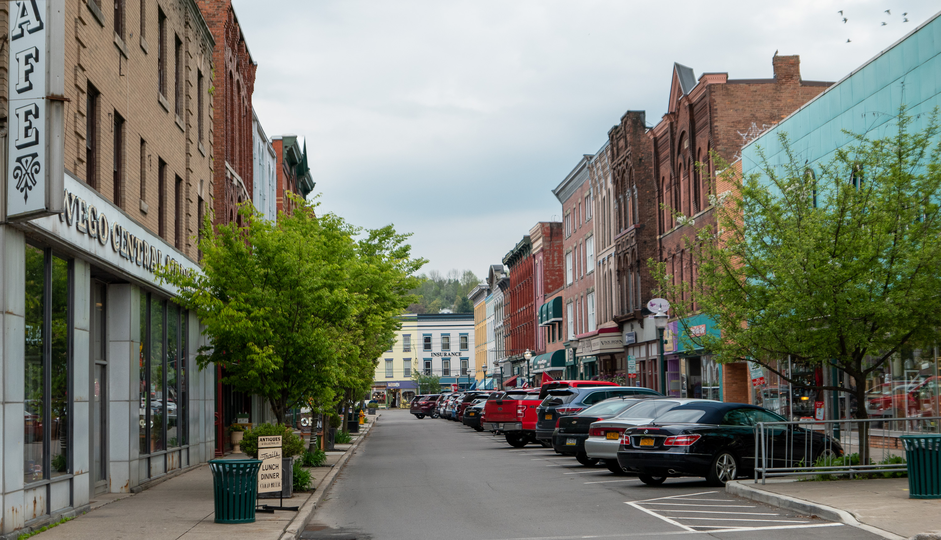 Looking down Lake Street in downtown Owego, New York